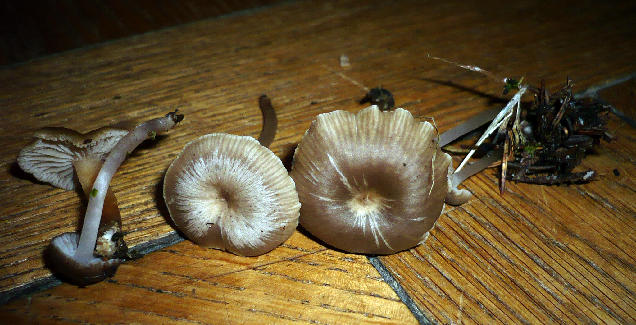 Fruit bodies of the fungus Fayodia bisphaerigera. Specimens collected in Pohori na Sumave, Southern Bohemia, Czech Republic.